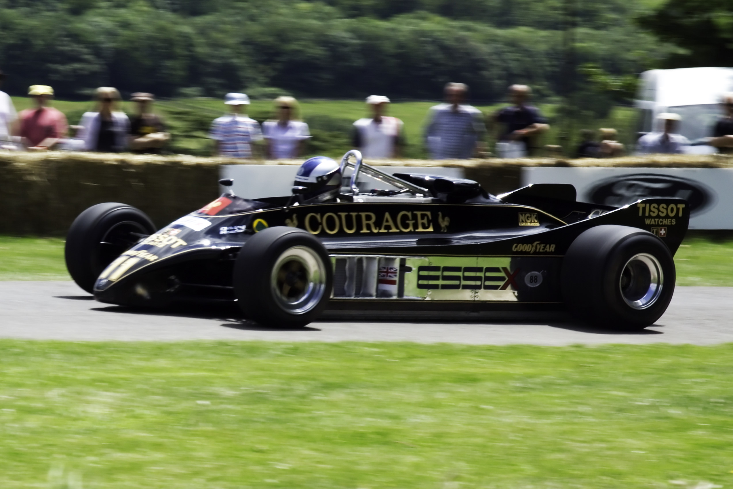 Lotus-Cosworth 88B